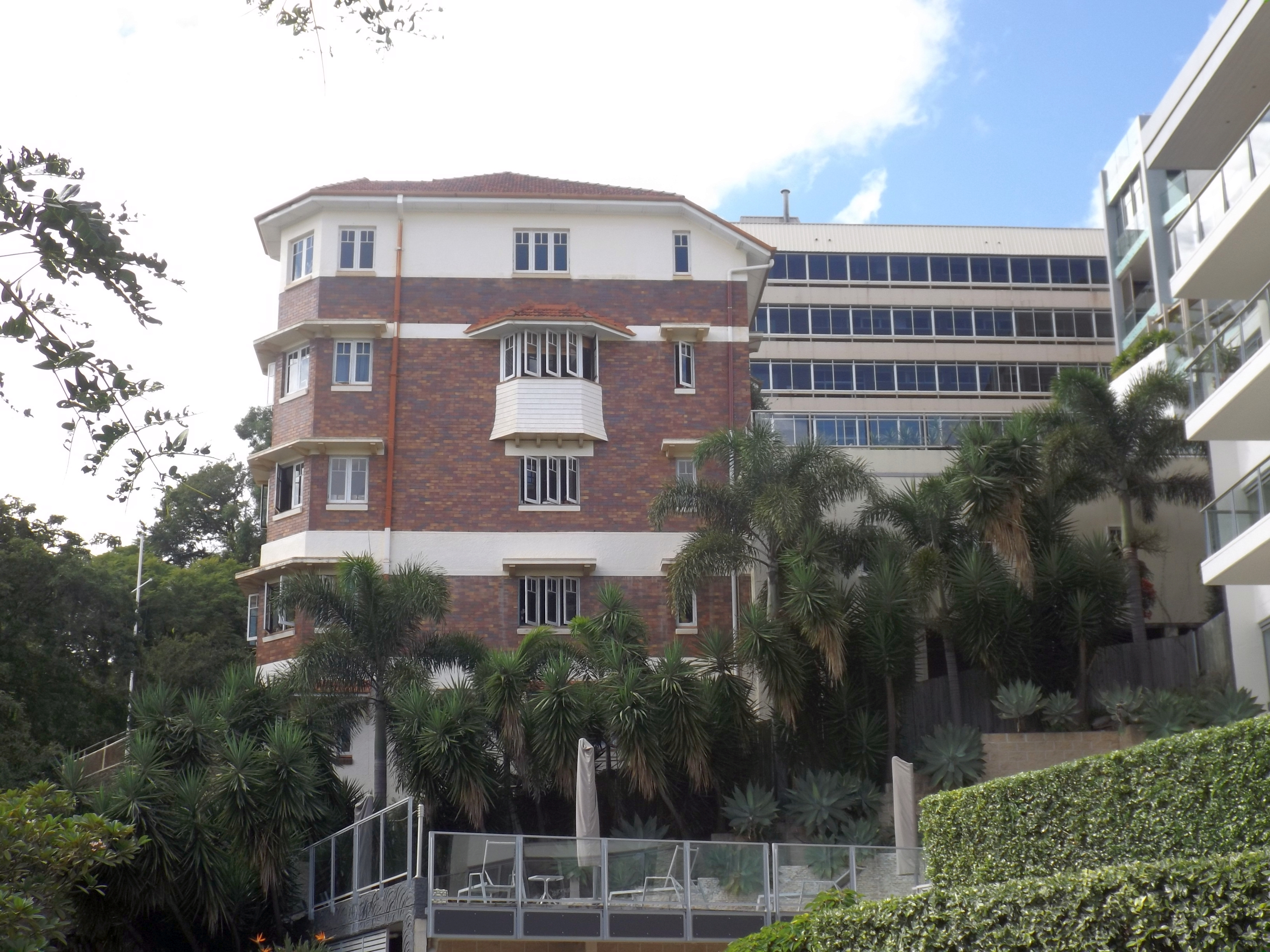 Photo of Cliffside Apartments at Kangaroo Point, Brisbane, Queensland, Australia.